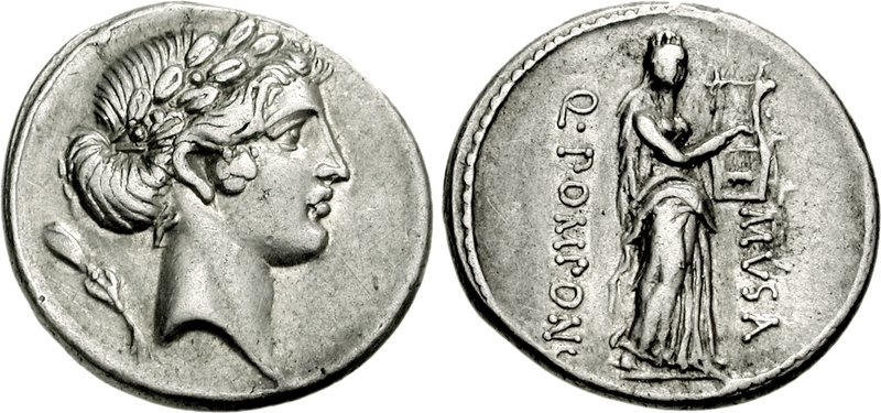 Roma, Quintus Pomponius Musa. 66 BC. AR Denarius (3.99 g, 5h). Rome mint. Laureate head of Apollo right, wearing hair rolled back and in loose locks over forehead; flower or rosette before ear; flower on stem behind Erato, the Muse of Erotic Poetry, standing slightly right, head facing, wearing long flowing tunic and peplum, holding lyre in left hand and with right hand striking it with plectrum; Q • POMPONI to left, MVSA to right. EF, lightly toned. Perfectly centered and well struck on both sides. Possibly the finest known example of this extremely rare issue.